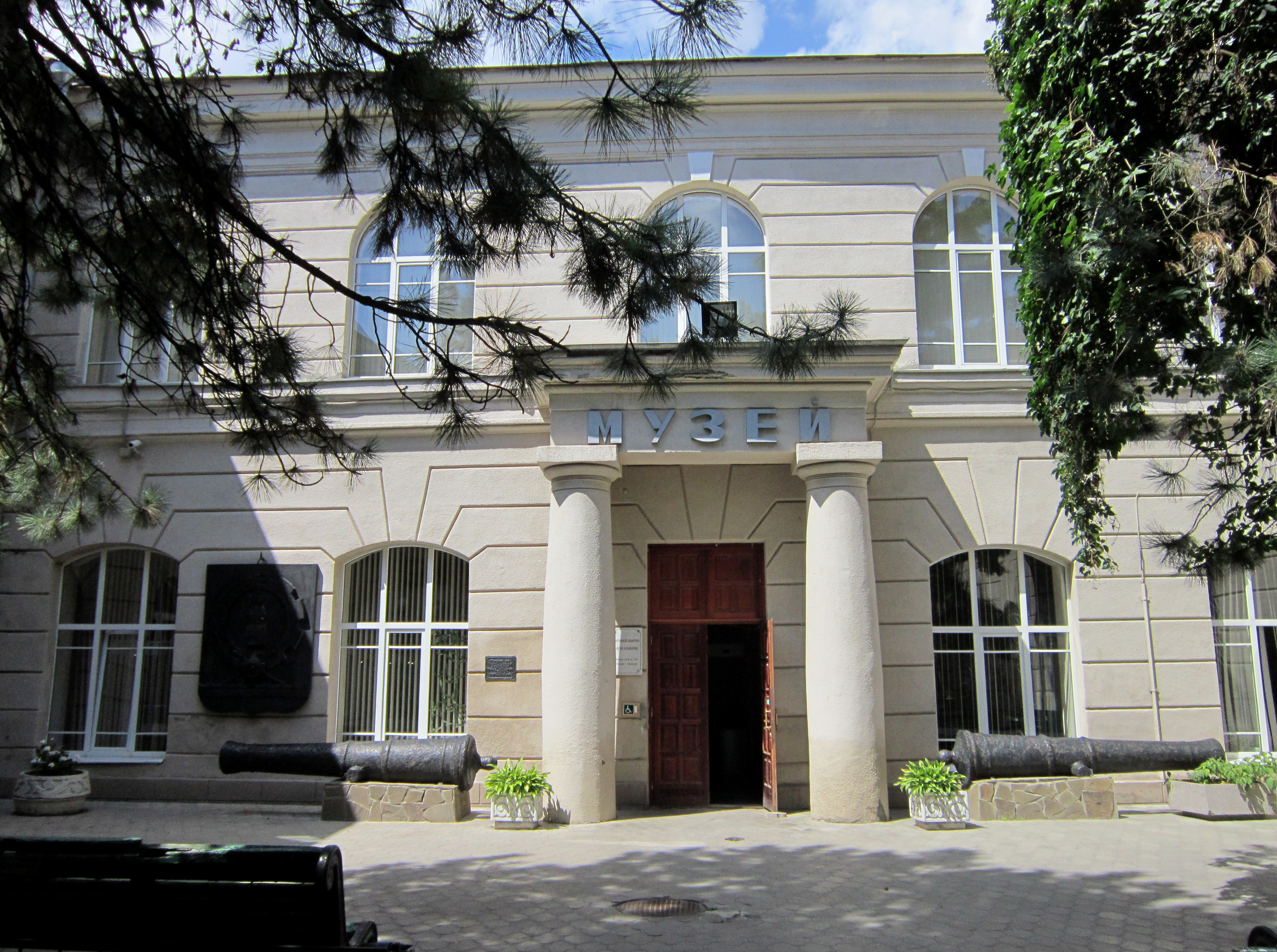 The Rostov regional museum of study of local lore(Rostov-on-Don)